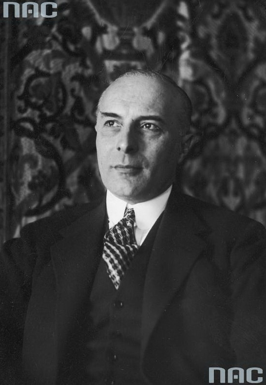 Eustachy Kajetan Sapieha (1881-1963) - a russian and polish politician